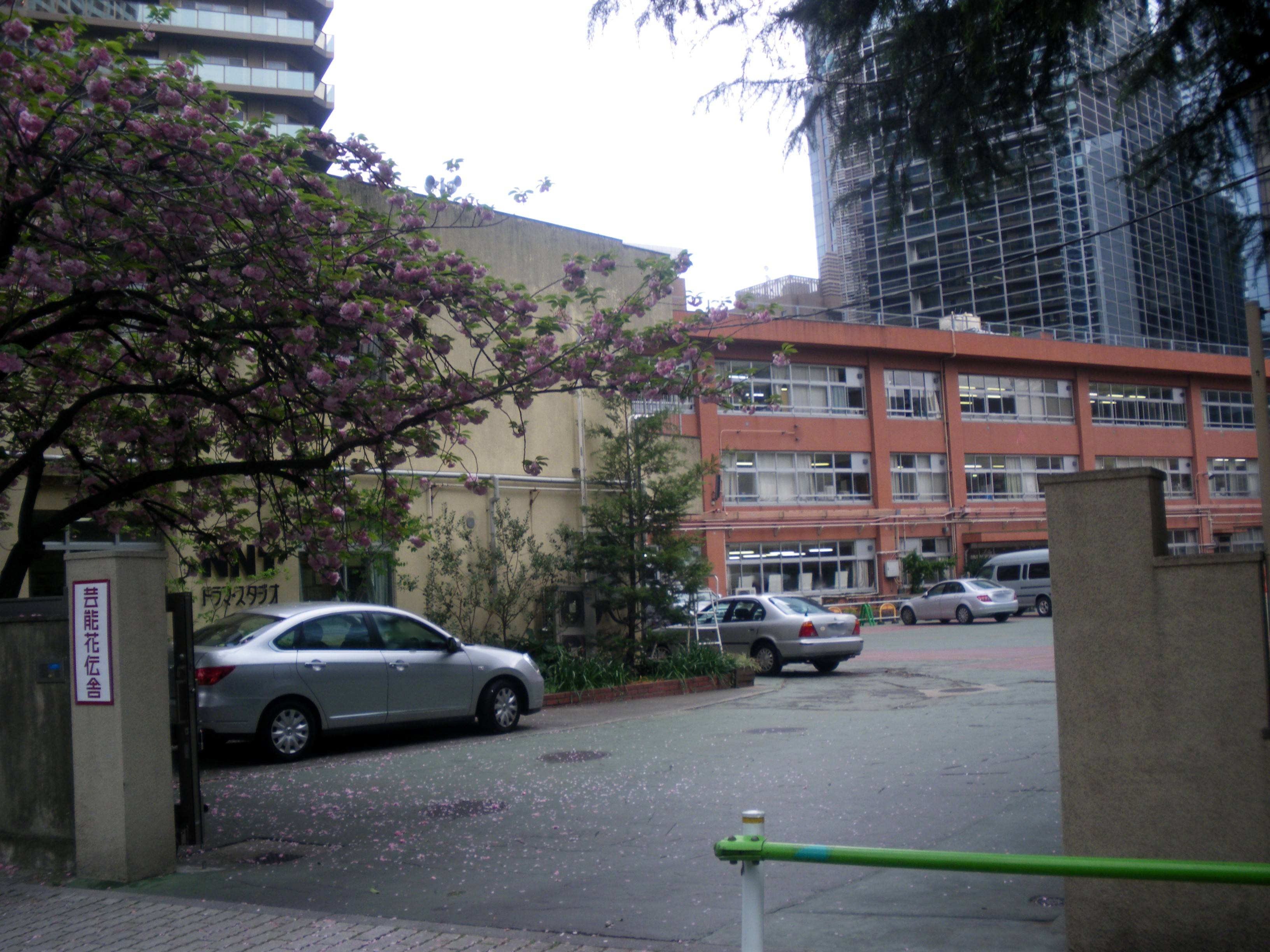 A photo of Geinokadensha Nishishinjuku,Shinjuku-ku,Tokyo,Japan.